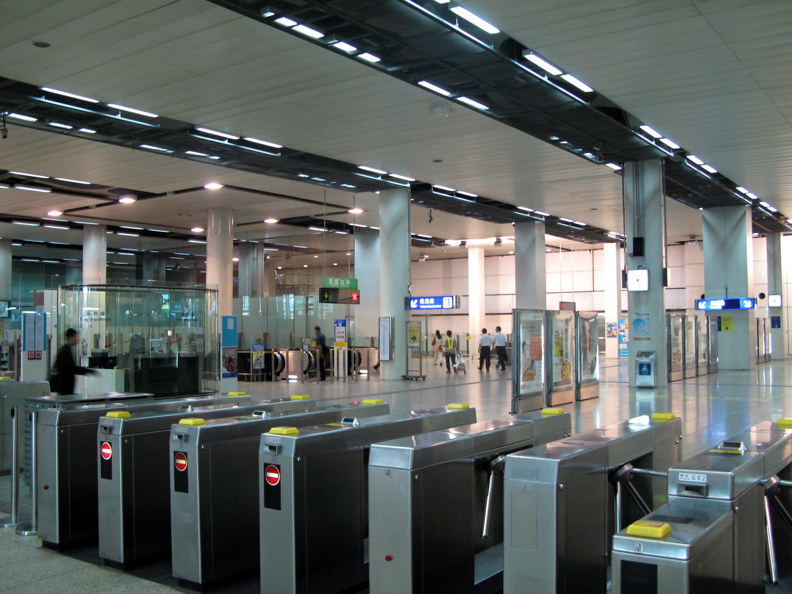 紅磡站大堂 Hung Hum Station Interior